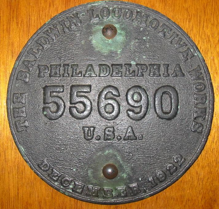 Baldwin builder's plate on display at the Mid-Continent Railway Museum, North Freedom, WI